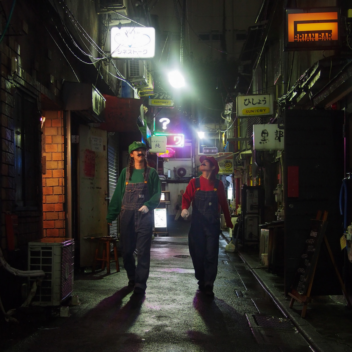 Akarui Hanazono Ichiban Street is located in Shinjuku Ward, Tōkyō Metropolis.